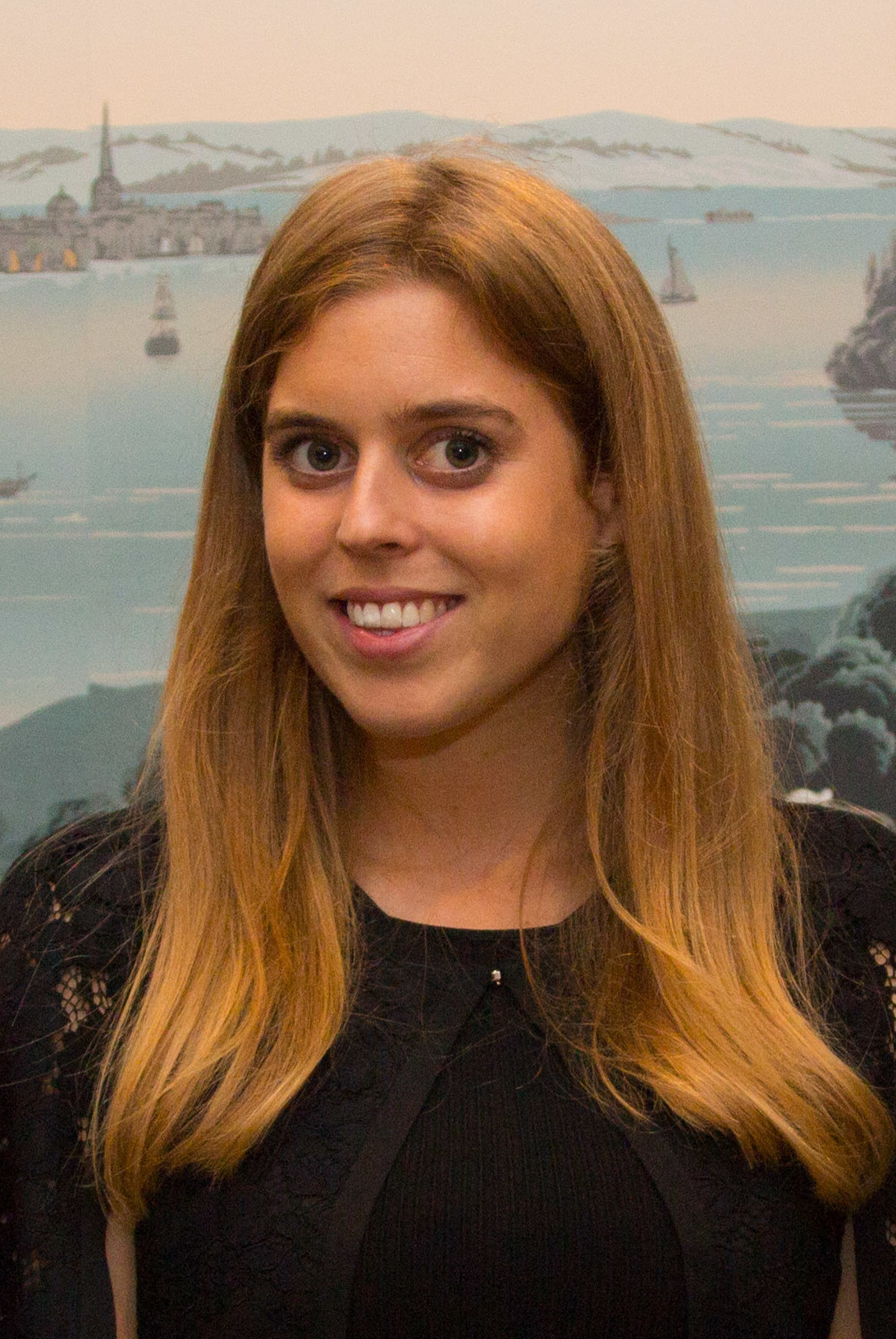 Her Royal Highness Princess Beatrice of York - Photographed at a special UN Broadband Commission Dinner, Yale Club, New York, 16 September 2017. ©ITU/ M. Jacobson – Gonzalez